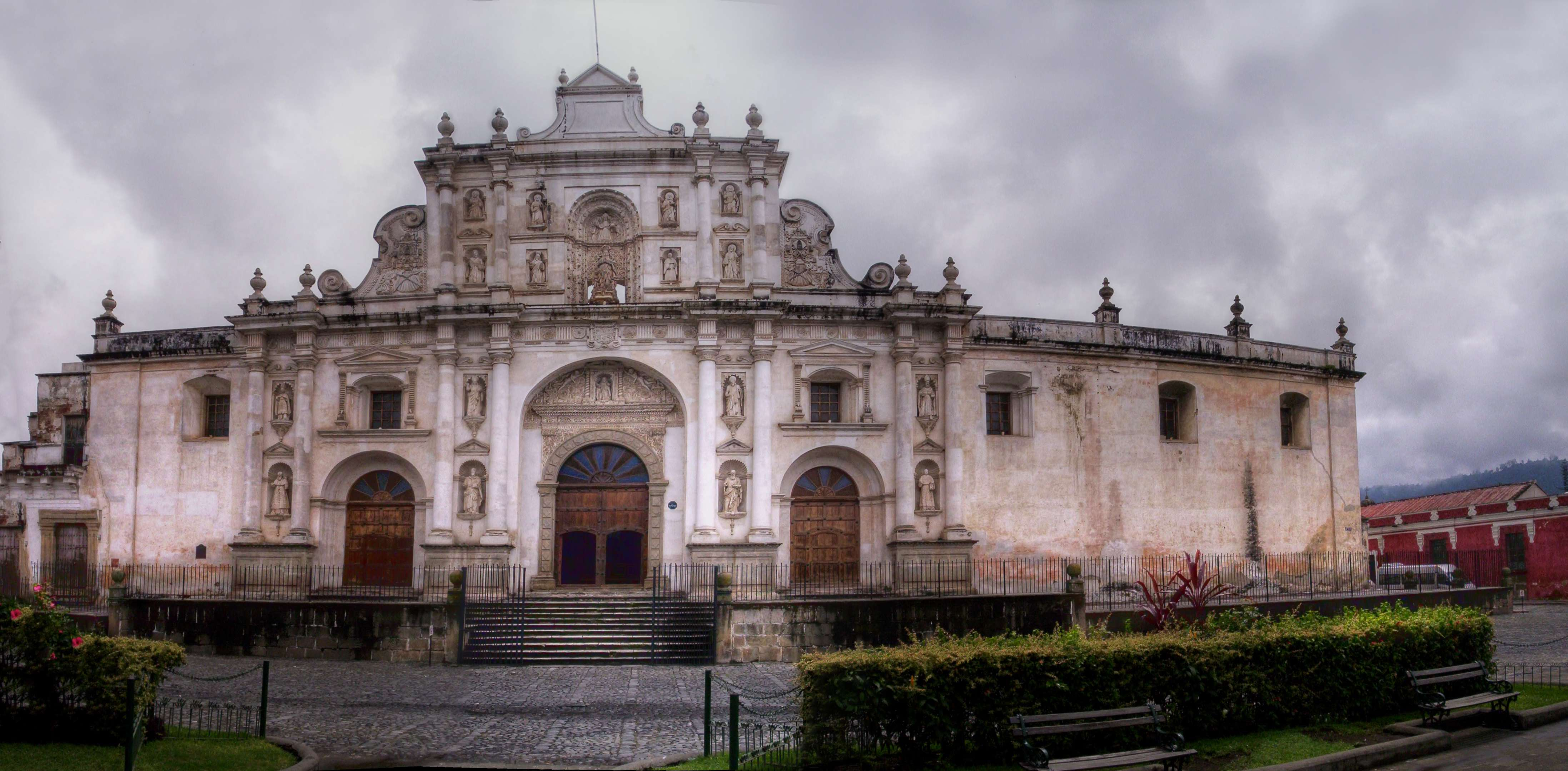 Guatemala Church